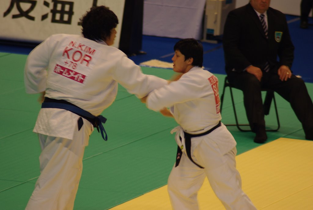 Kim (KOR) vs Polavder (SLO), 2008 Kano Cup Day 1